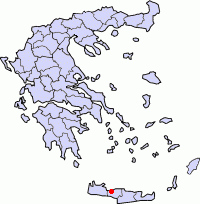 locator map, based on Image:Prefectures Greece grey.png